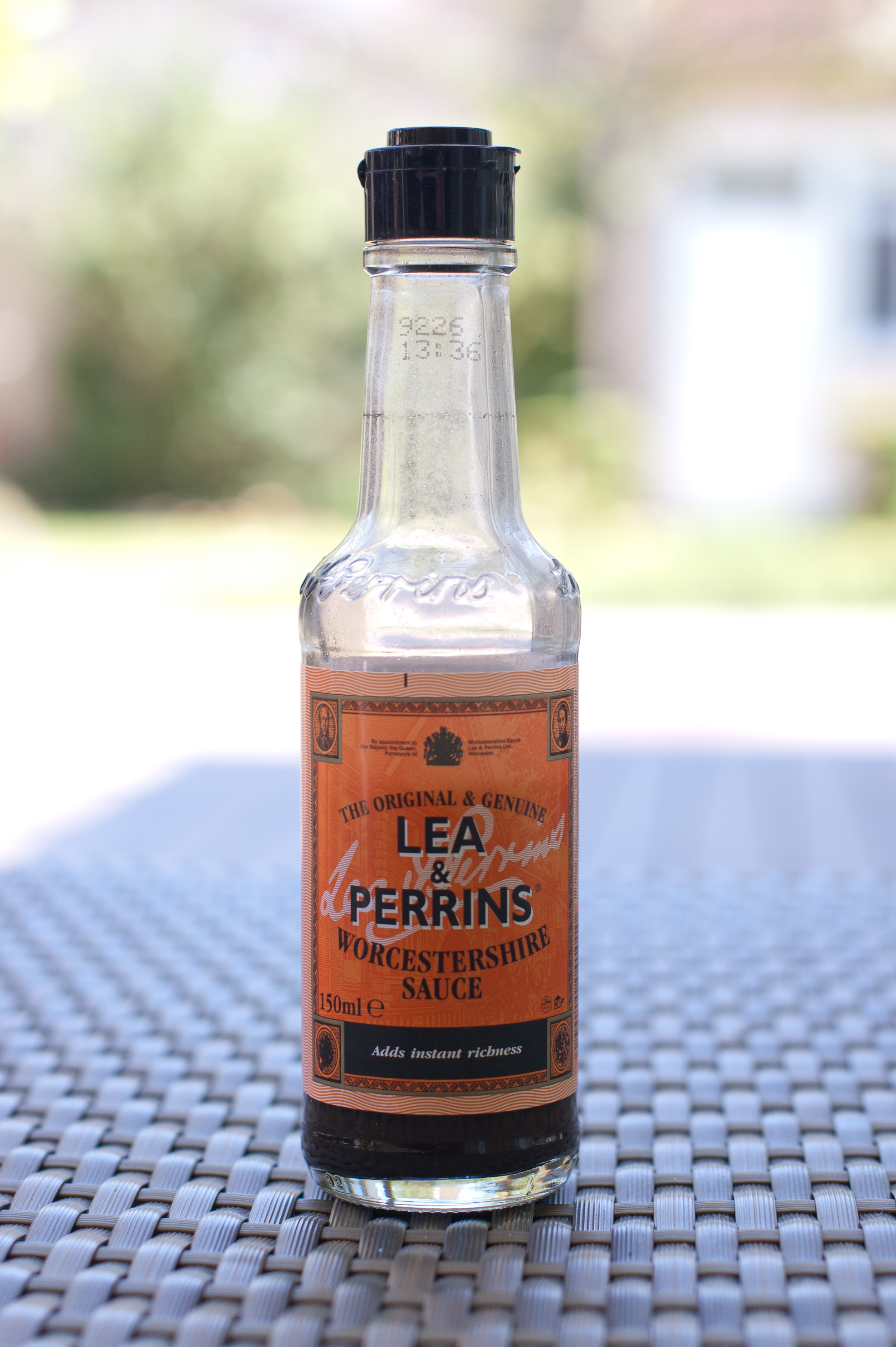 A bottle of Worcestershire sauce.